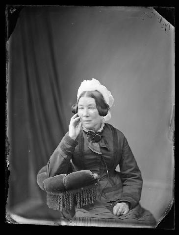 Three quarter length studio portrait of a woman: Erica Elspeth Collins, wife of Arthur Collins